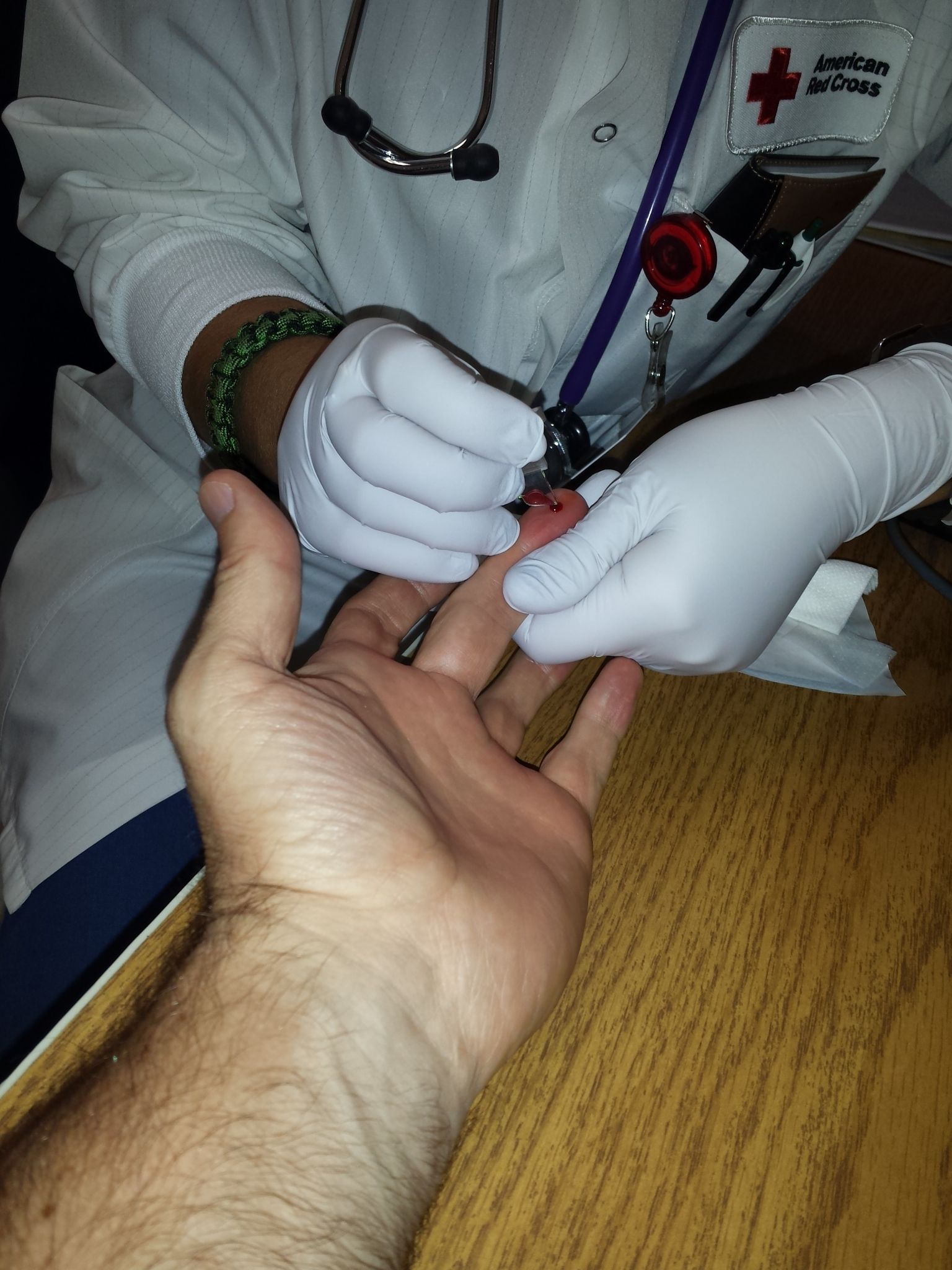 A photo of a hemoglobin concentration measurement being administered before a blood donation at the American Red Cross Boston Blood Donation Center. Other information I am the patient in the photo and I give my permission for this to be shared.